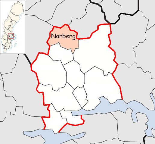 Norberg Municipality in Västmanland County, Sweden, after Heby Municipality was transferred to Uppsala County